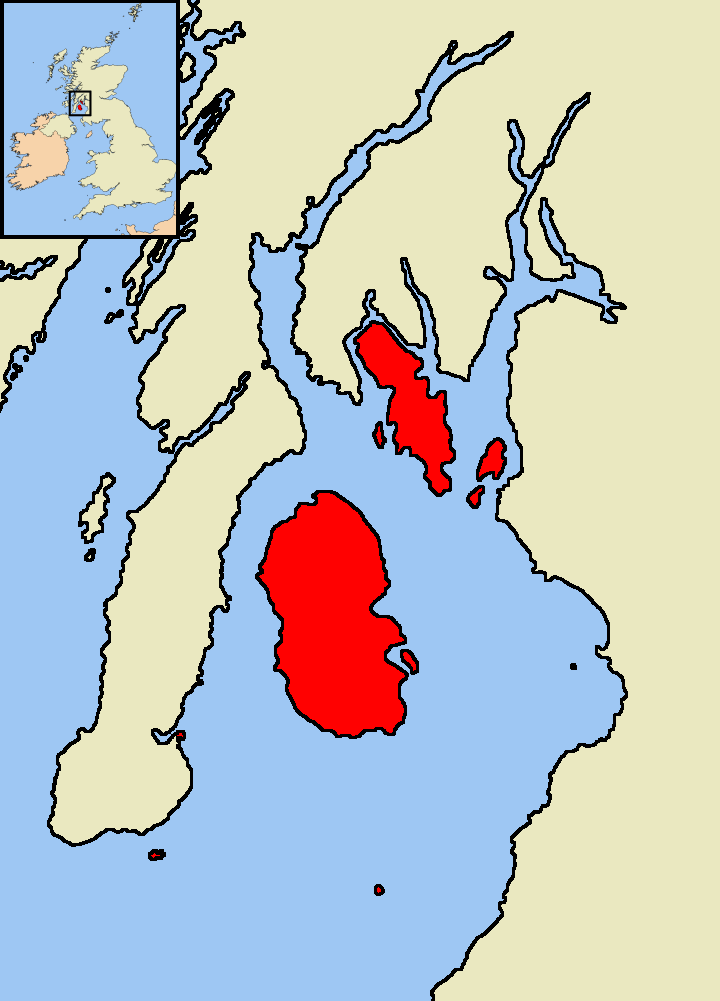 Own work, based on Image:Na_h-Eileanan_Siarcouncil.PNG and Image:Uk_outline_map.png - cropped, recoloured and the islands highlighted.